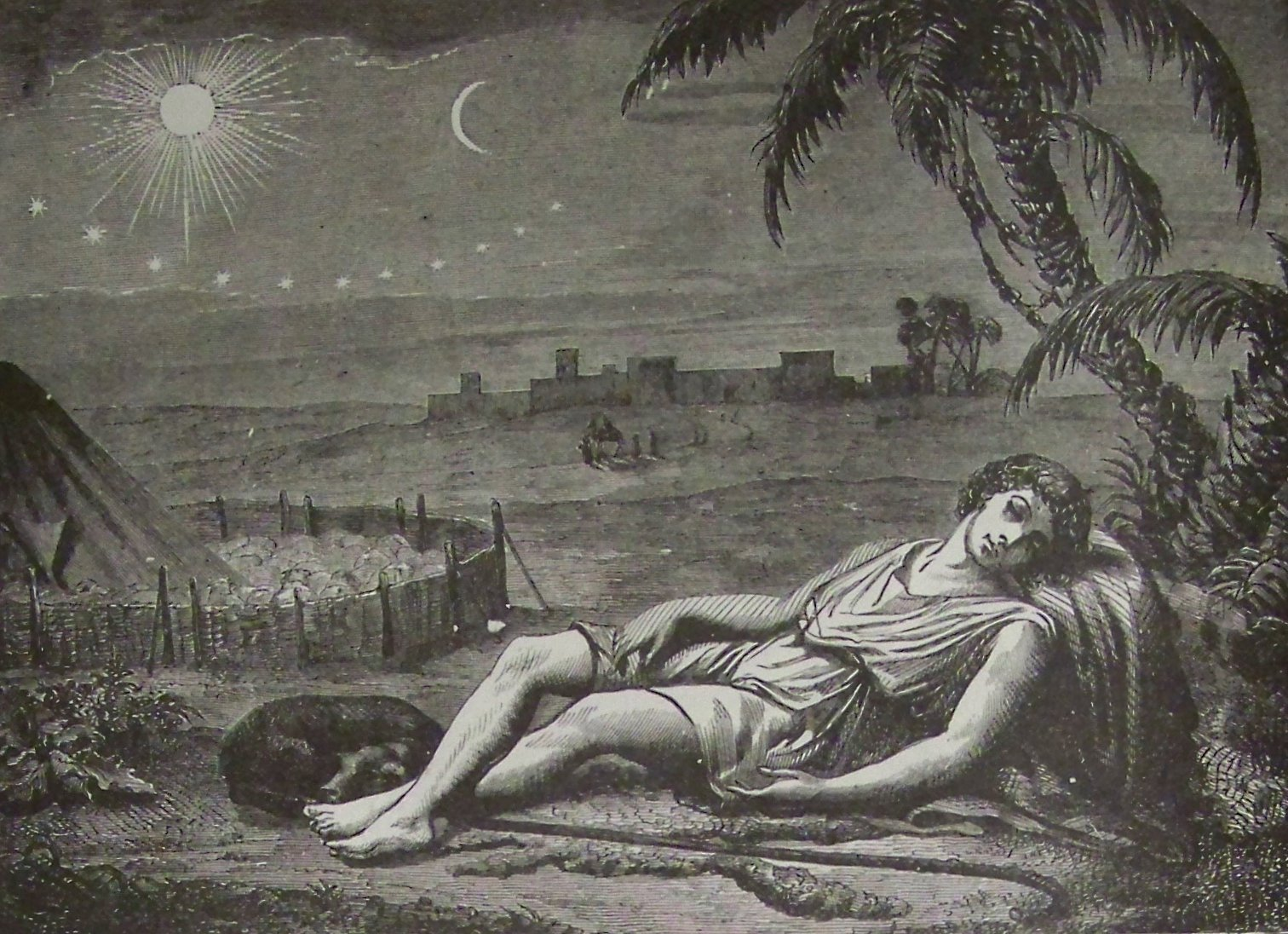 Josephs Dream, as in Genesis 37:9–10, illustration from the 1890 Holman Bible